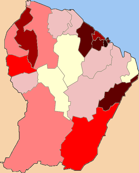 This is the current Covid 19 spread across French Guiana as of 29 June 2020. The colours indicate the number of cases per commune